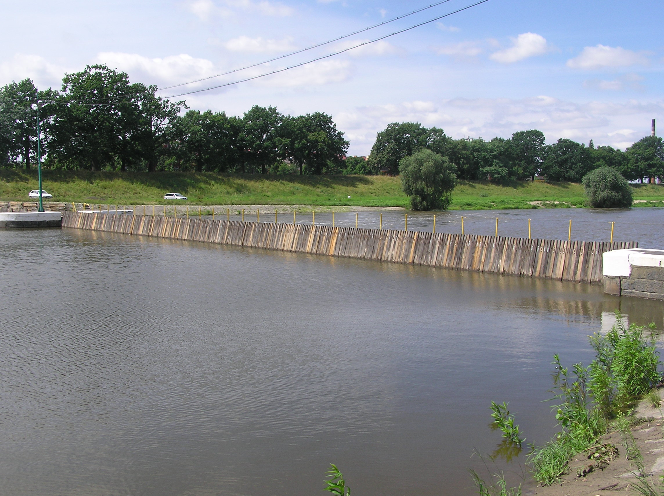 Wrocław, Psie Pole Weir